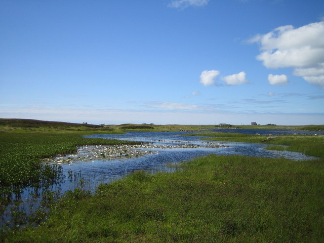 Loch Olabhat near Griminis at Benbecula, Outer Hebrides, Scotland